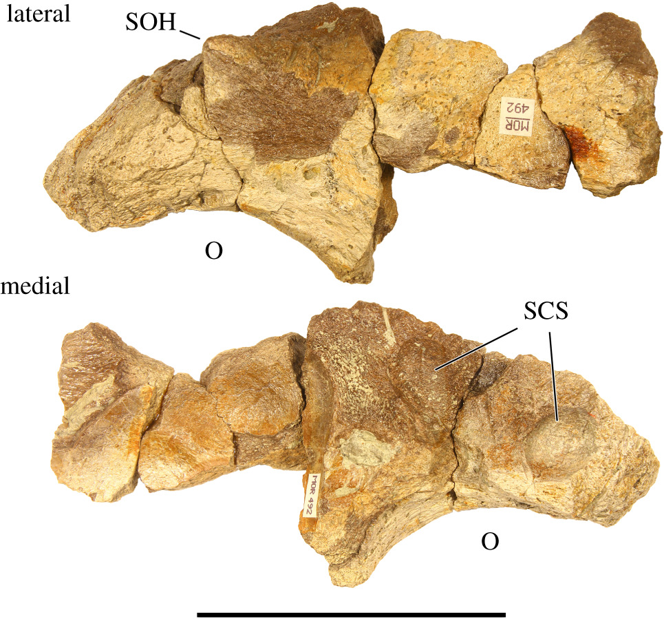 Left supraorbital ornamentation of Stellasaurus ancellae holotype MOR 492 in lateral and medial views. O, orbit; SCS, supracranial sinus; SOH, supraorbital horncore. Scale bar 10 cm.